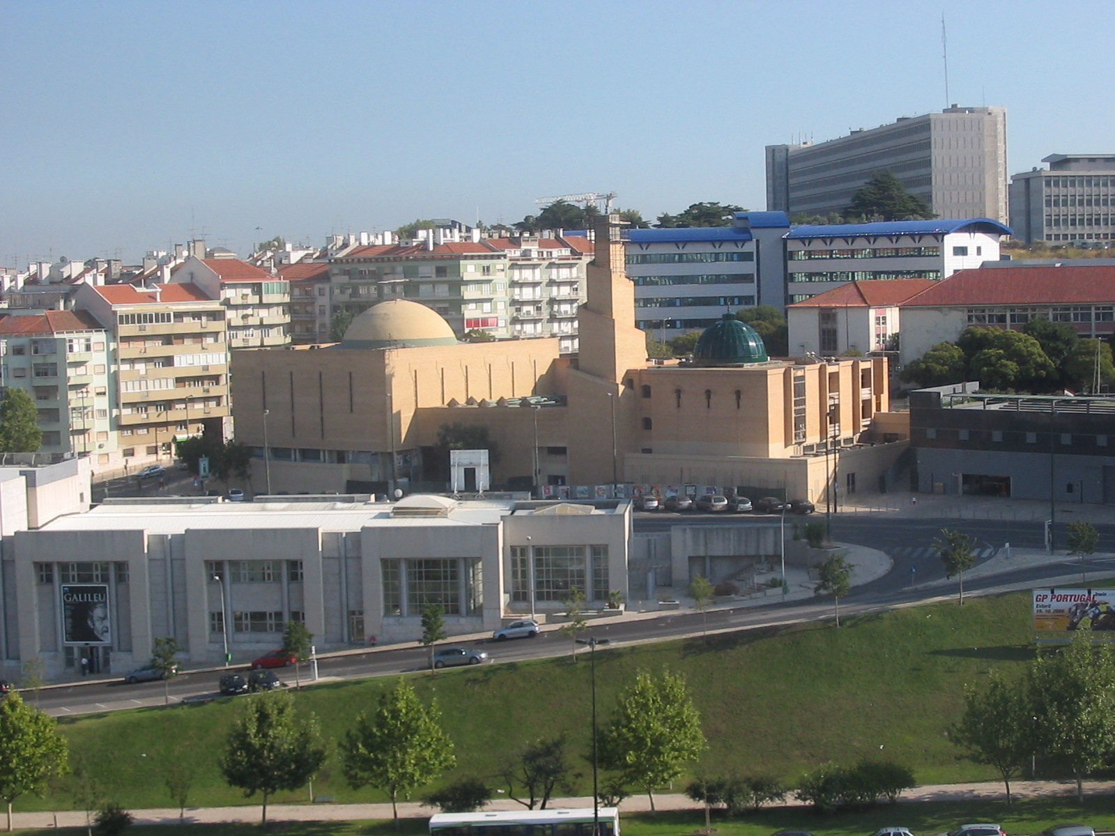 Mosque in Lisbon, seen from the Hotel Acores Lisboa